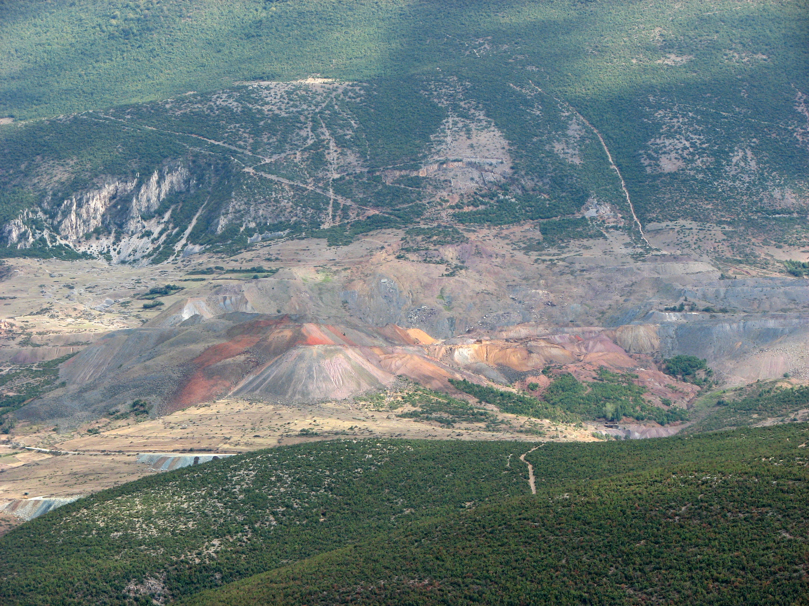 Miniera e Bakrit në Gjegjan, Kukës